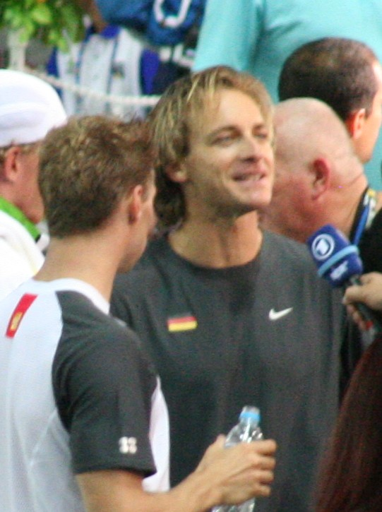 World Athletics Championships 2007 in Osaka - German Pole Vault Competitor Tim Lobinger after the qualification round